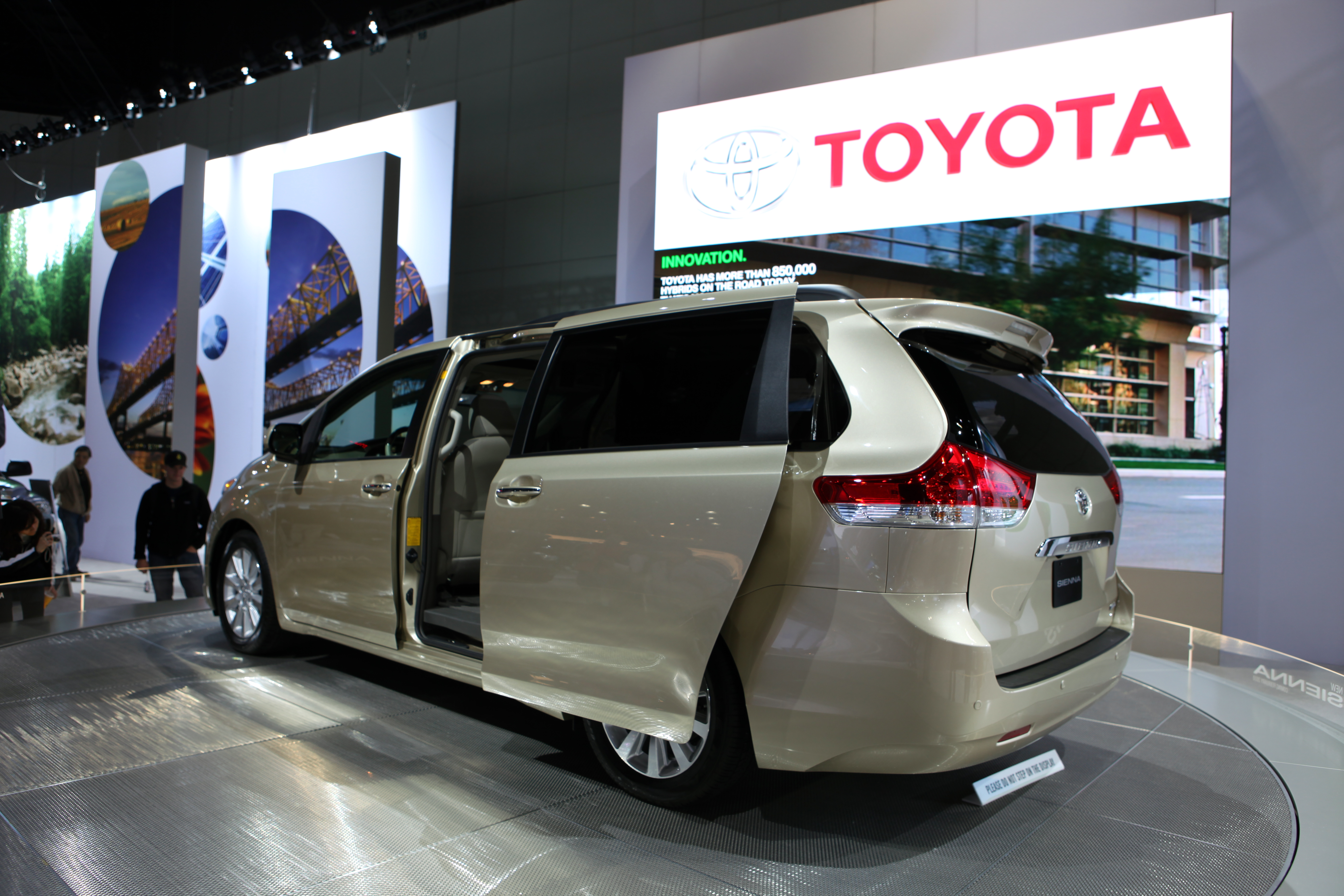 Toyota Sienna at LA Auto Show 2009.